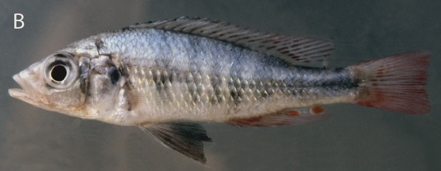 Live colours of Haplochromis argens: sexually active ♂, 72.1 mm SL (paratype, RMNH.PISC.84067), Mwanza Gulf.